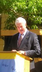 Major-General Michael Jeffery opening the Laurie Copping Museum, Hall Primary School, 2005 Photo: D.M. Vernon